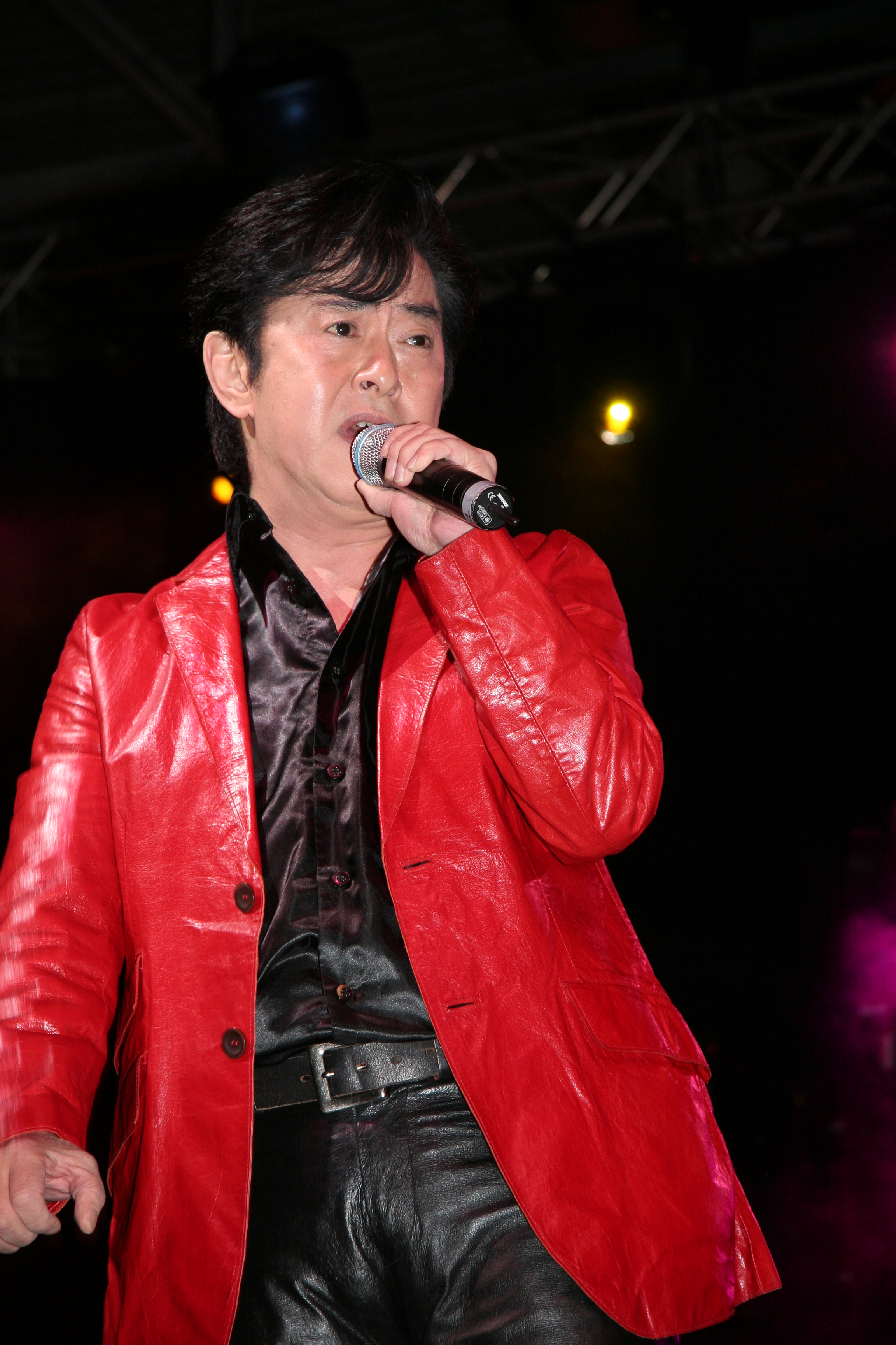 Ichiro Mizuki live at Japan Expo 2007 (Paris, France).